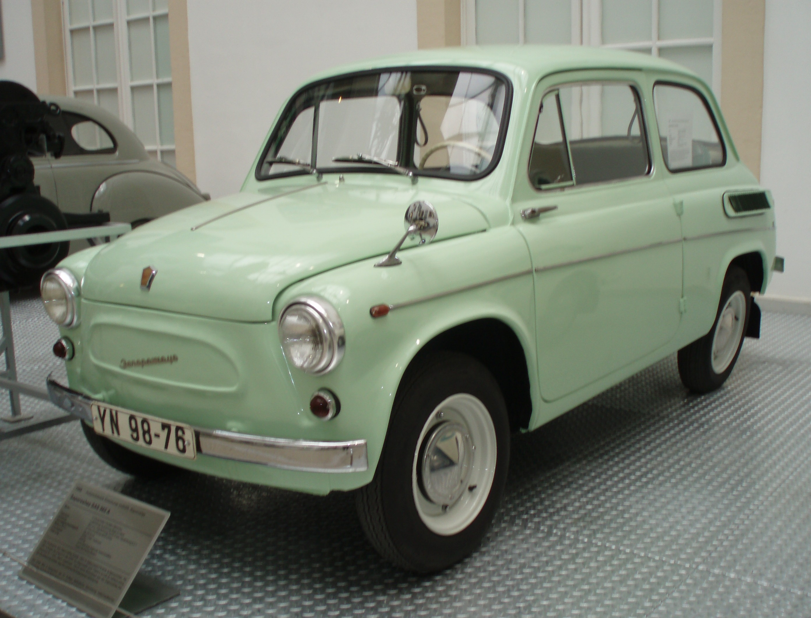 Zaporozhetz ZAZ-965AE (export trim) 1968, fabricated in ZAZ or Zaporizhia Automobile Building Plant, photographed in Verkehrsmuseum in Dresden.